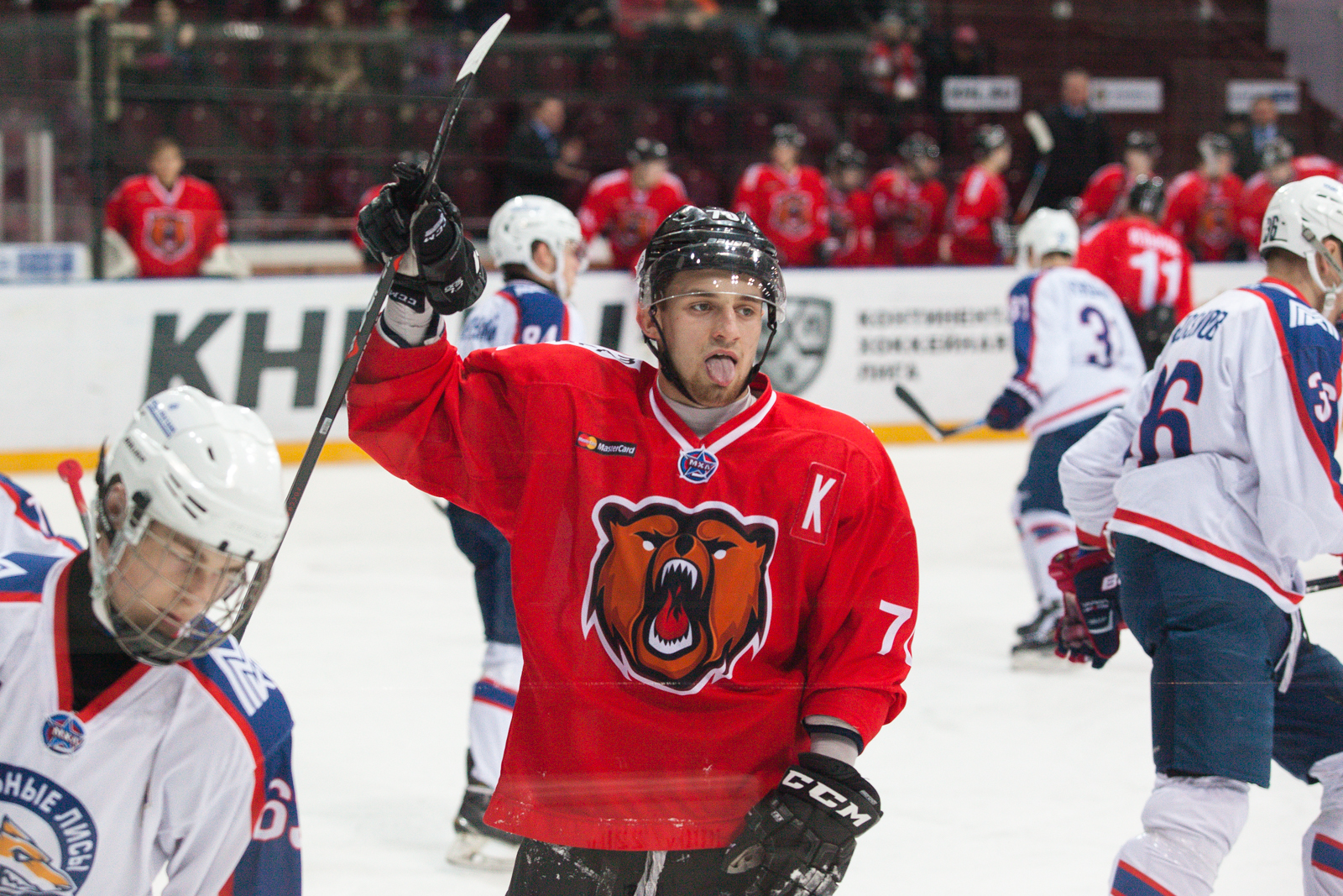 Kuznetsky Bear